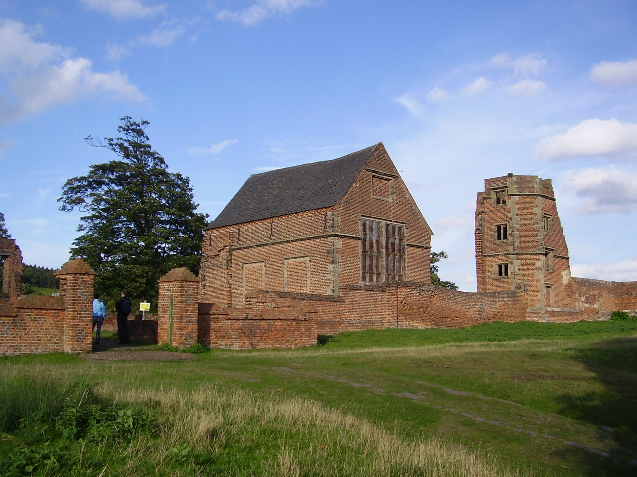 The remains of Thomas Grey's Bradgate House in 2005. The ruined country house is located in Bradgate Park in Leicestershire. It was completed around 1520, making it one of the earliest non-fortified brick-built country houses in England